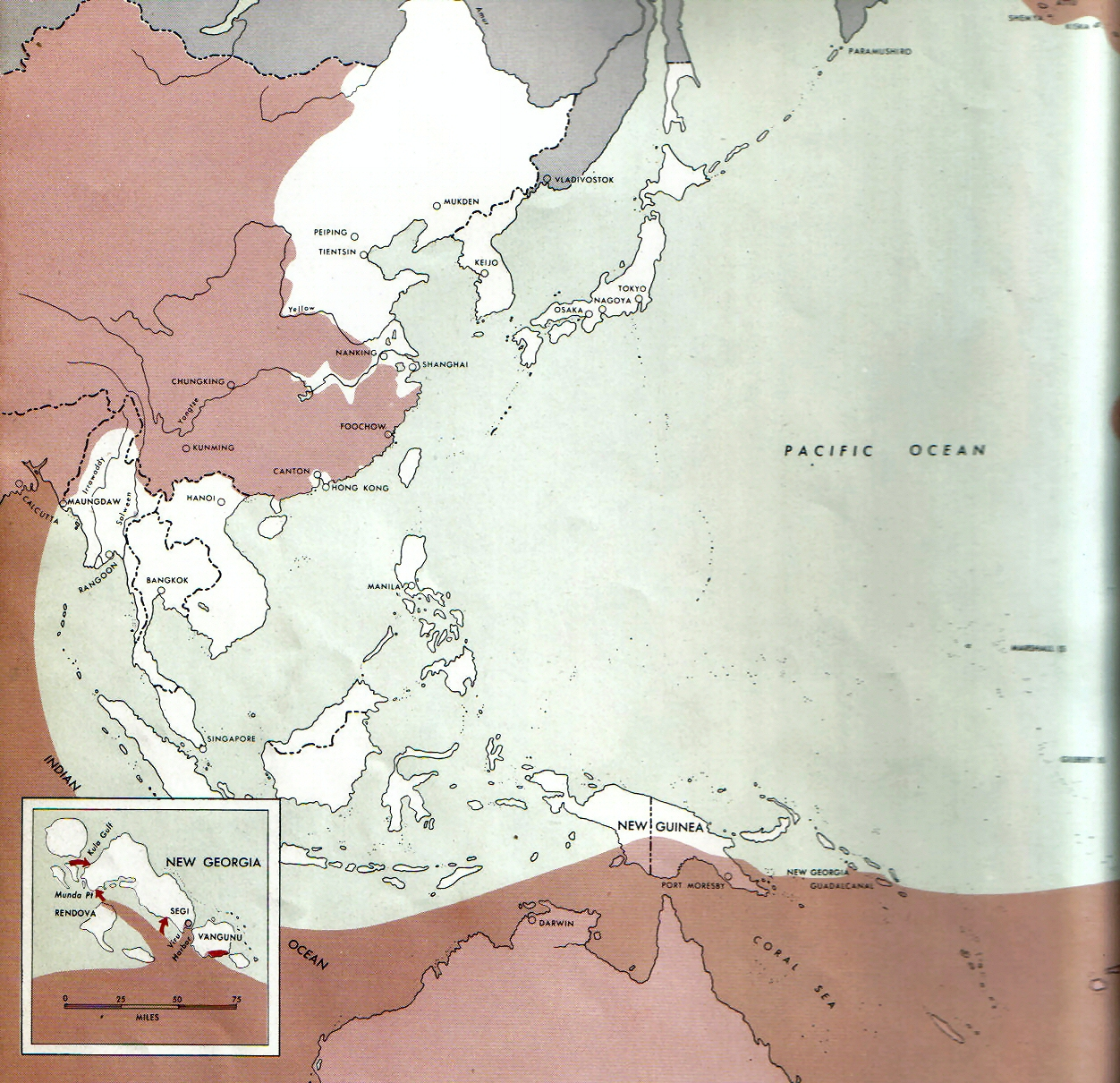 Map of the front against Japan as of 15 July 1943: This map is taken from the source "Atlas of the World Battle Fronts in Semimonthly Phases to August 15th 1945: Supplement to The Biennial report of The Chief of Staff of the United States Army July 1, 1943 to June 30 1945 To the Secretary of War". (See Cover, Forward and Map details)